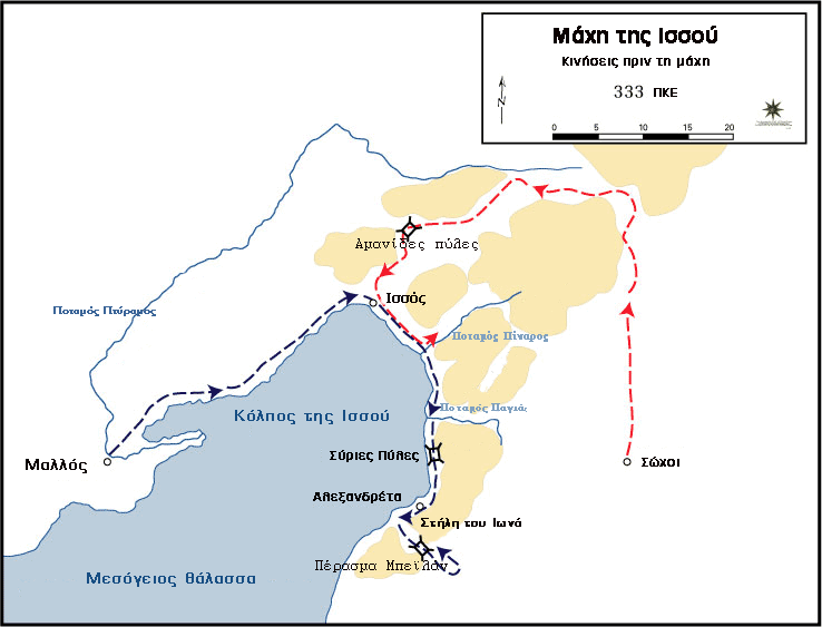 linguistic manipulation of English map showing tactical movements on Issus Battle